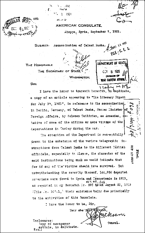 Sir: I have the honor to transmit herewith, in duplicate, a copy of an article appearing in "The Literary Digest for July 20, 1921", in reference to the assassination in Berlin, Germany, of Talaat Pasha, former Minister of Foreign Affairs, by Solomon Teilirian, an Armenian, relative of some of the million or more victims of the deportations in Turkey during the war. The attention of the Department is respectfully drawn to the substance of the various telegraphic instructions from Talaat Pasha to the different Turkish officials, especially in Aleppo, the character of the said instructions being such as would indicate that few if any of the victims should have survived. But notwithstanding the severity thereof, 146,924 deported Armenians were found in Syria and Mesopotamia in 1919, as reported in my despatch No. 395 dated August 22, 1919 (File No. 349.1,) their existence being due principally to the activities of this Consulate. I have the honor to be, Sir, Your obedient servant, (signed) Jesse Jackson Consul. Enclosures: Copy of newspaper article, in duplicate.